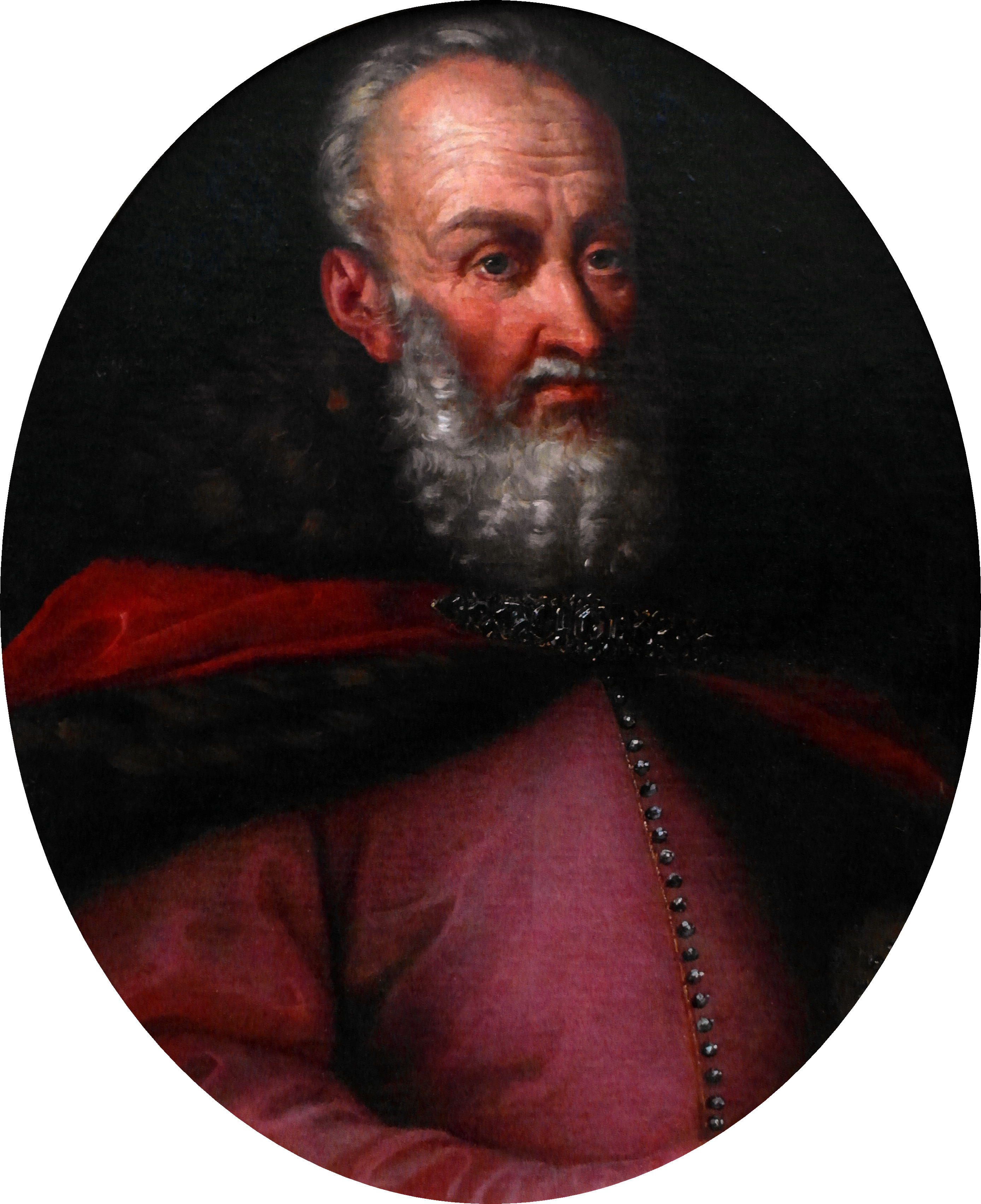 Stanisław Rewera Potocki 1